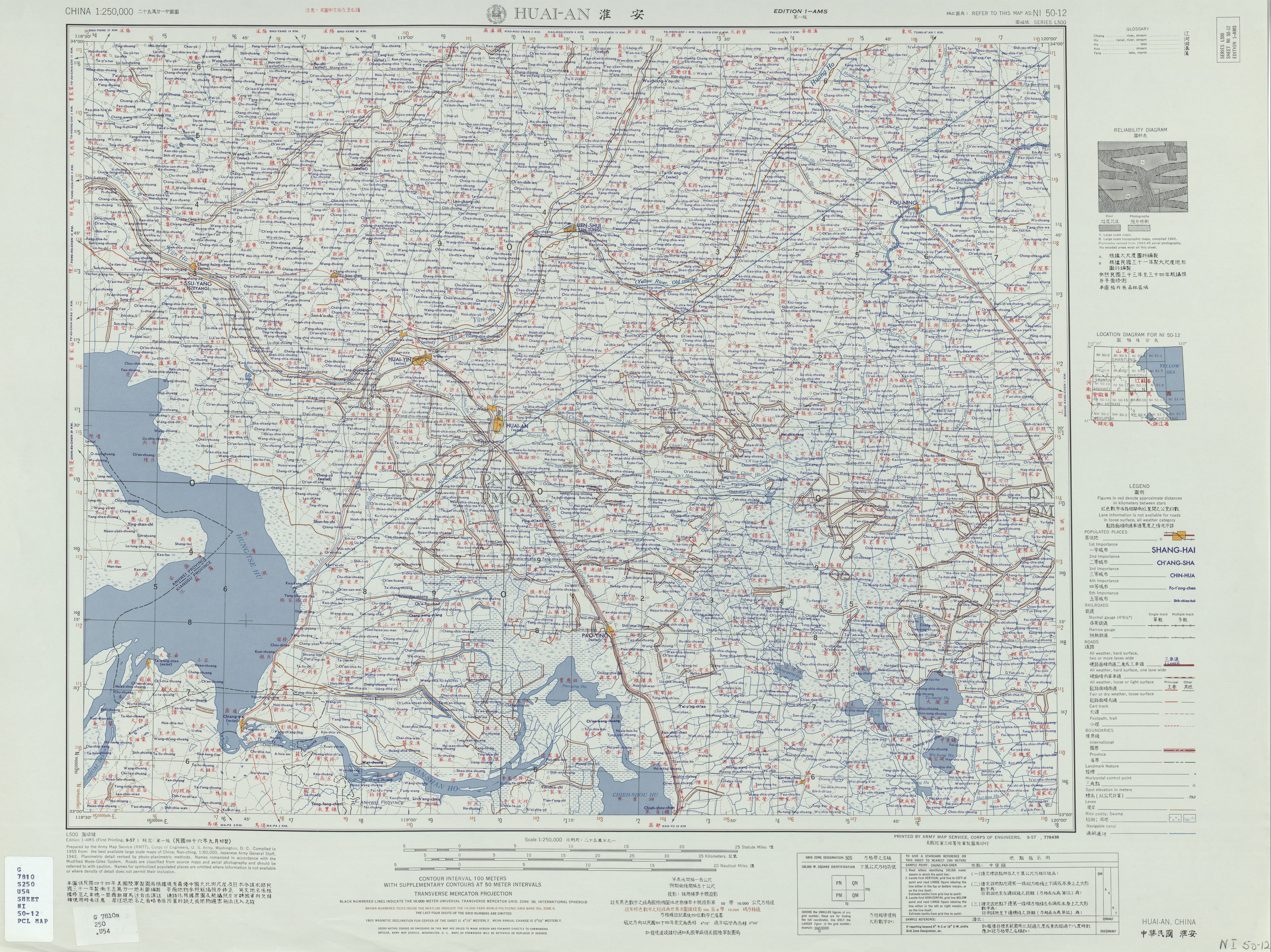 China AMS Topographic Maps